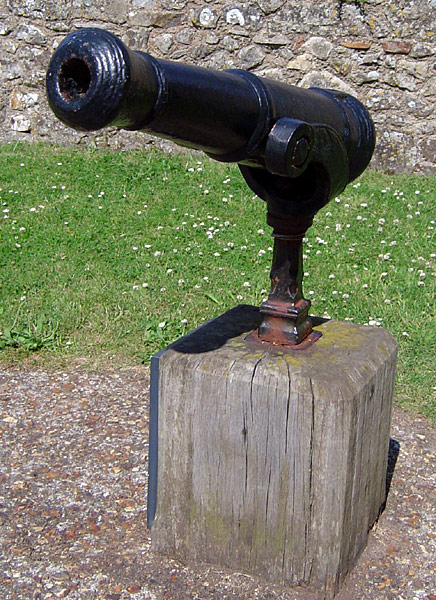 Swivel gun at Carisbrooke Castle, Isle of Wight